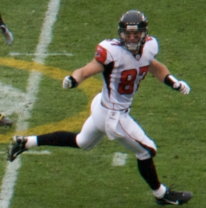 Green Bay Packers DB Patrick Lee #22 chases Atlanta Falcons wide receiver #84 Roddy White.